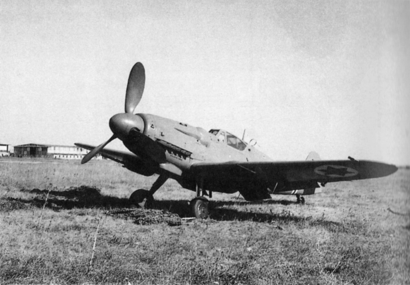 Israeli Air Force Avia S-199 of the 101st squadron in June 1948.מטוס אוויה S-199 של טייסת 101 ביוני 1948 This work or image is now in the public domain because its term of copyright has expired in Israel (details). According to Israel's copyright statute from 2007 (translation), a work is released to the public domain on 1 January of the 71st year after the author's death (paragraph 38 of the 2007 statute) with the following exceptions: A photograph taken on 24 May 2008 or earlier — the old British Mandate act applies, i.e. on 1 January of the 51st year after the creation of the photograph (paragraph 78(i) of the 2007 statute, and paragraph 21 of the old British Mandate act). If the copyrights are owned by the State, not acquired from a private person, and there is no special agreement between the State and the author — on 1 January of the 51st year after the creation of the work (paragraphs 36 and 42 in the 2007 statute). See also category: PD Israel & British Mandate.